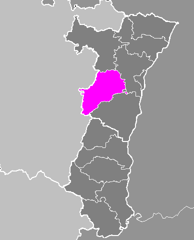 Maps of arrondissements and cantons of France: Arrondissement de Molsheim.PNG (Région Alsace)